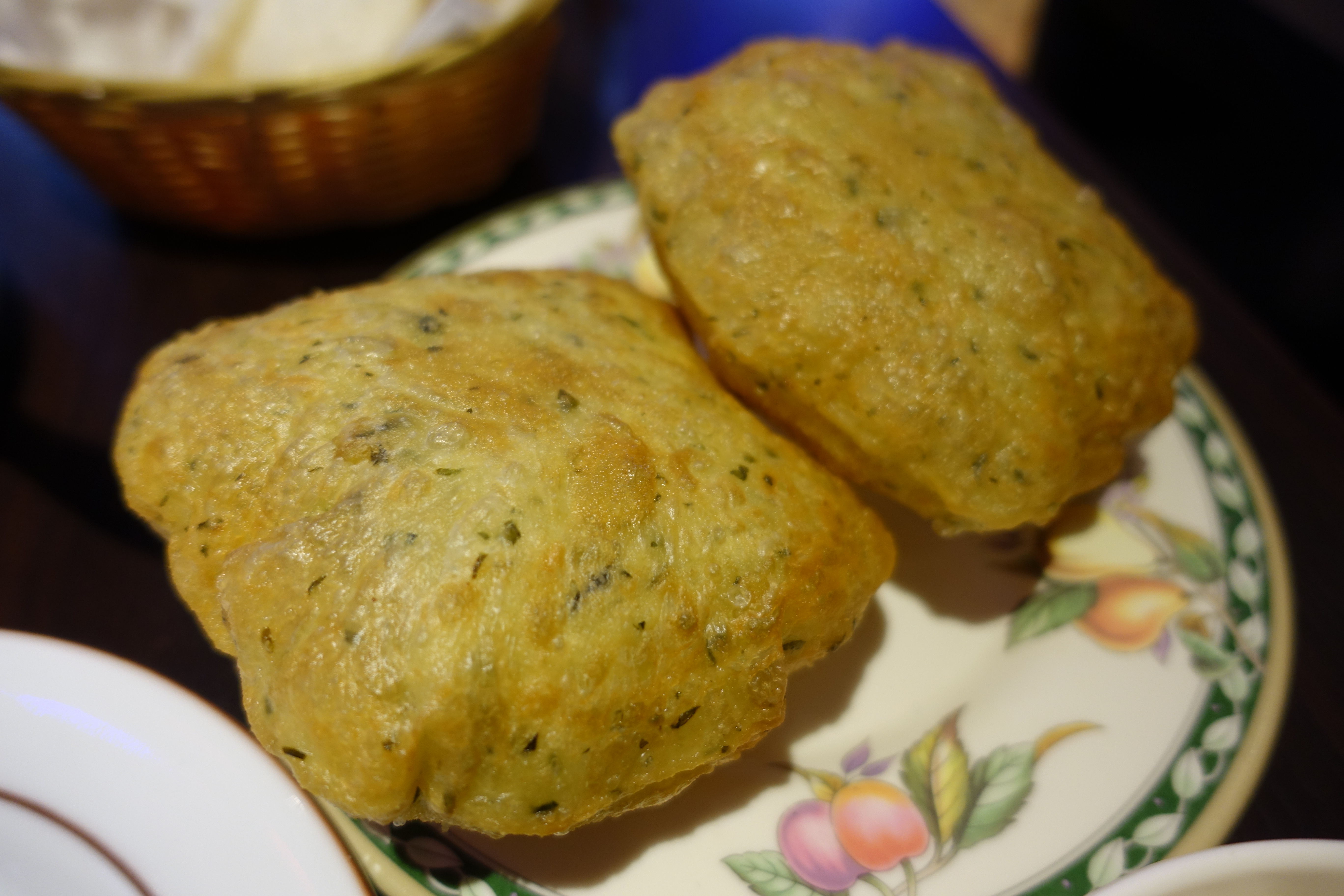 Galette with chive @ Chez Yong @ Paris